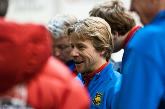 Geir Nordby in LSK-Hallen